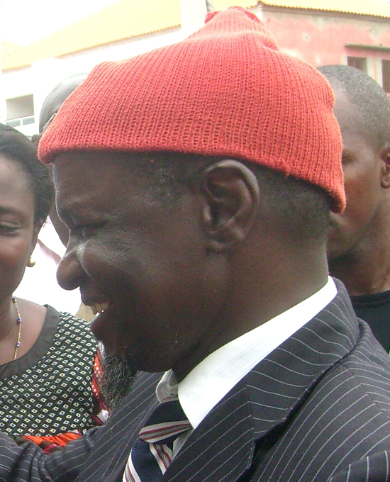 Koumba Yala, former president of Guinea Bissau, among his electorate during 2009 presidential campaign